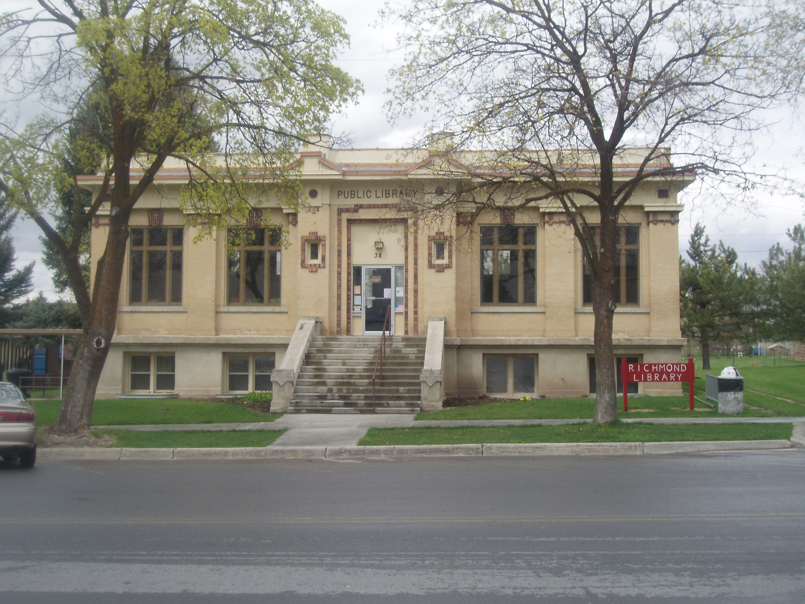 The Richmond Public Library, built as a Carnegie library, still serves as the public library in Richmond, Utah, United States.